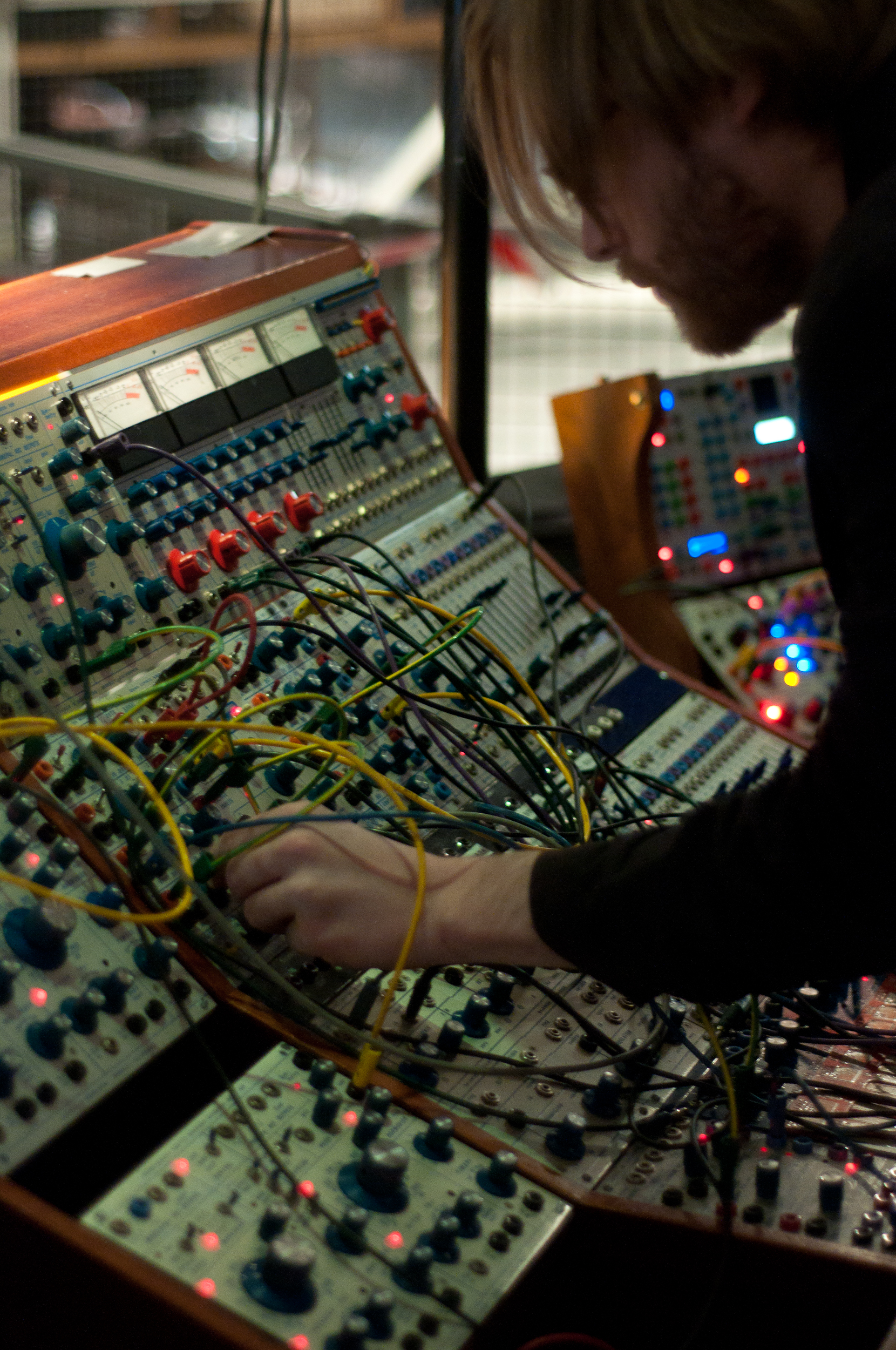 Buchla 200 series Electric Music Box DSC_0036 References EMS brings the Buchla synthesizer to Tekniska museet!. EMS Elektronmusikstudion (a part of Swedish Performing Arts Agency). "EMS will for the first time ever take the legendary Buchla modular system out of the studio to show it at Tekniska museet on Sunday the 6:th of November from 12 to 16. / Tekniska museet is closing its space exhibition "A space adventure" and celebrates this with a special event that is all about analog modular synthesizers and their sounds in a fitting environment. / Bring your friends and family to experience a Sunday full of futuristic visions of the sixties! / Link to Tekniska museet press release (in Swedish): Analoga syntar fyller rymden med ljud (in Swedish) (press release). Tekniska museet (2010-10-27). Archived from the original on 2010-11-07. "Tid: 6 november 12-16 / Plats: "Ett Rymdäventyr" på Tekniska museet, Museivägen 7"